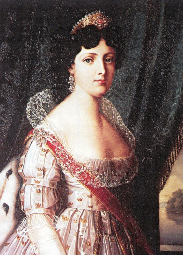 Queen Frederica of Sweden (1781-1826)